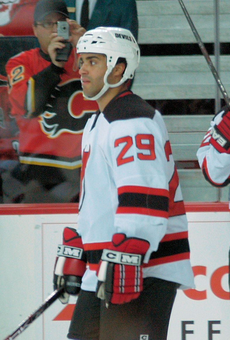 Johnny Oduya of the New Jersey Devils during a pre-game warmup in Calgary